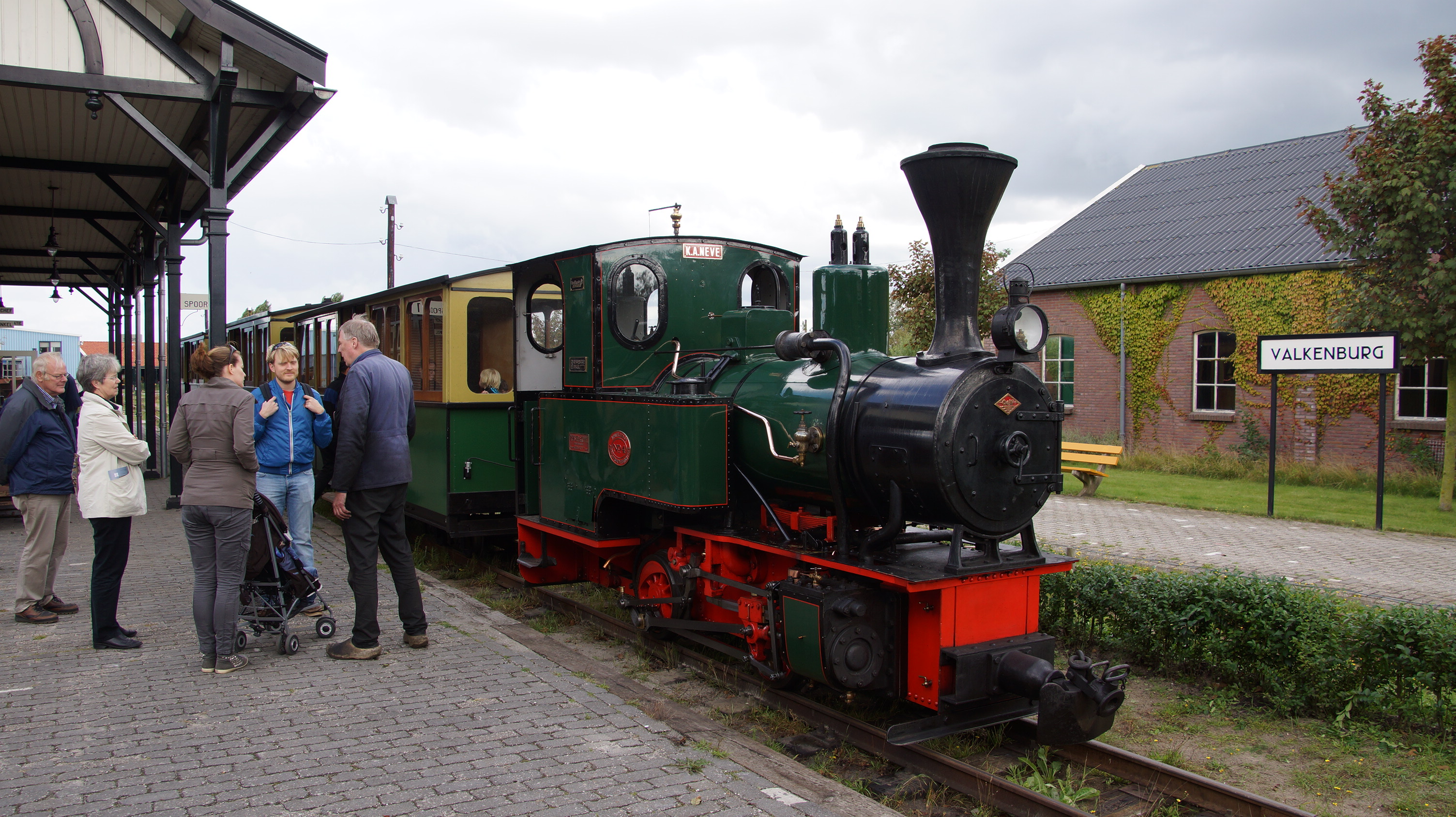 Orenstein & Koppel narrow gauge locomotives at the narrow gauge railway museum in Valkenburg (NL)